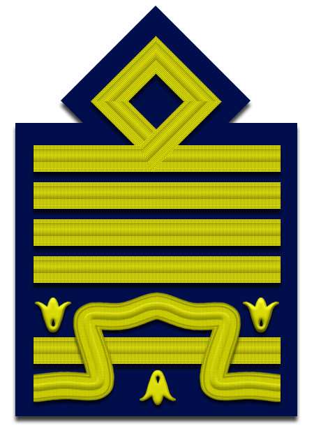 insignia for the sleeves of the rank of general chief of the defence force of the Italian Air Force